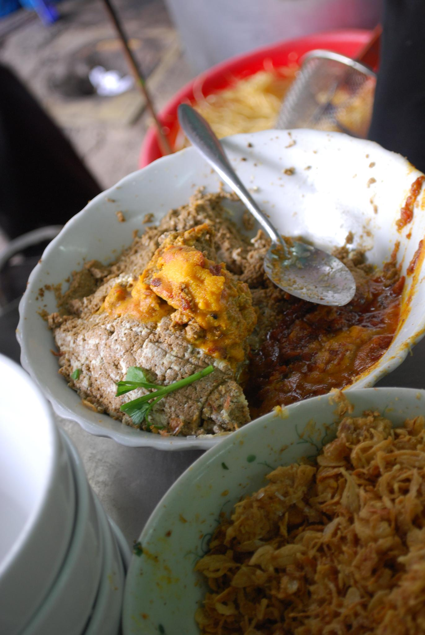 Crab Roe Pate and Fried Shallots - Ly Quoc Su. Absolutely the best tasting dish I've had in Vietnam! The rich crab broth is liberally flavoured with fried shallots and topped with a generous scoop of crab roe pate which looks like a mixture of crab roe and residue from the ground up crabs. Because of the fried shallots and the shellfish, it bears striking similarities to the 虾面 Hae Mee prawn noodles of Malaysia. Apart from the soup, the toppings included puffy fish cakes, a boiled pork sausage a bit like boudin blanc or weisswurst, but studded with sliced pig ears, beansprouts and water spinach. With much gesturing and repeating "mot soup, mot no soup" ("mot" is 1 in Vietnamese), the lady eventually said, "mot nuoc, mot kho". I nodded my head wildly agreeing, since i knew "nuoc" meant water or liquid, and from the beef jerky stalls with Bo Kho signs, I presumed "kho" meant dry! (The probably mean "bowl") As my reward, I was presented with a bowl of bún riêu cua kho with a sprinkling of peanuts. The lady even showed me how to squeeze lime over it, and add as much chilli shrimp paste as I liked. The dry version was also moistened with some crab broth, but with so little liquid, the crab paste made the sauce really intense. Amazingly good! It was no wonder that the food was as good as it was. You could tell by how packed the place was at lunchtime, and the fact that there was a huge pot of crab soup simmering away, which is a good indication of the volume of diners! Specialty Cakes skin at 59A Phung Hung, phone: 04. 9286519 or 0915 323 362 service to take place from 07h to 21h. You will enjoy the different feeling when eating crab cakes have here. - Google Translate Bún Riêu Cua - wikipedia